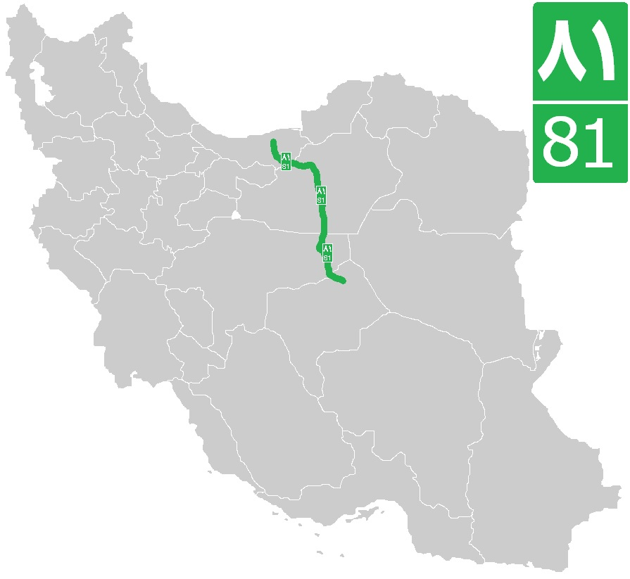 Location of Road 81 in Iran from File:Blank-Map-Iran.PNG